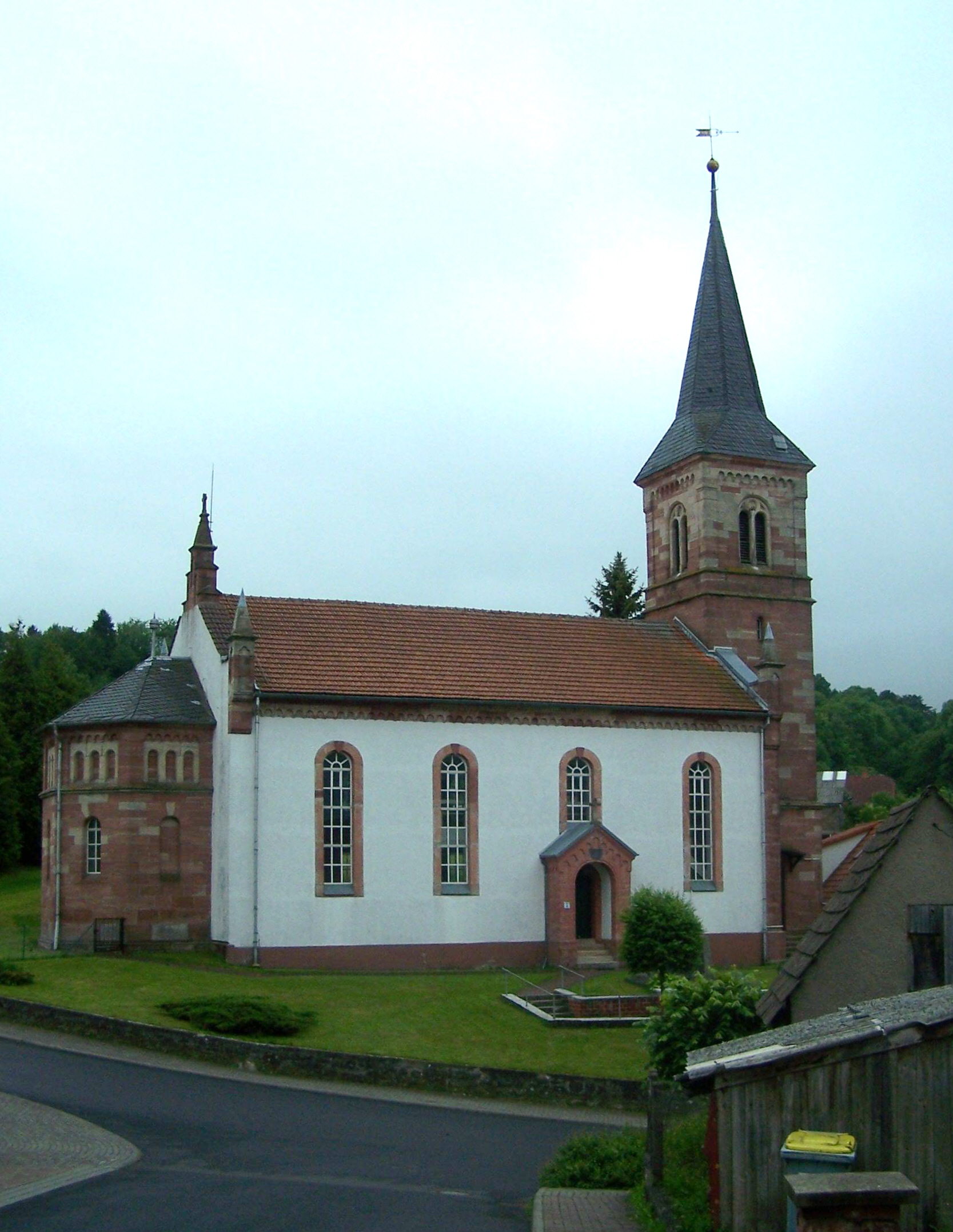 The church in Klings.